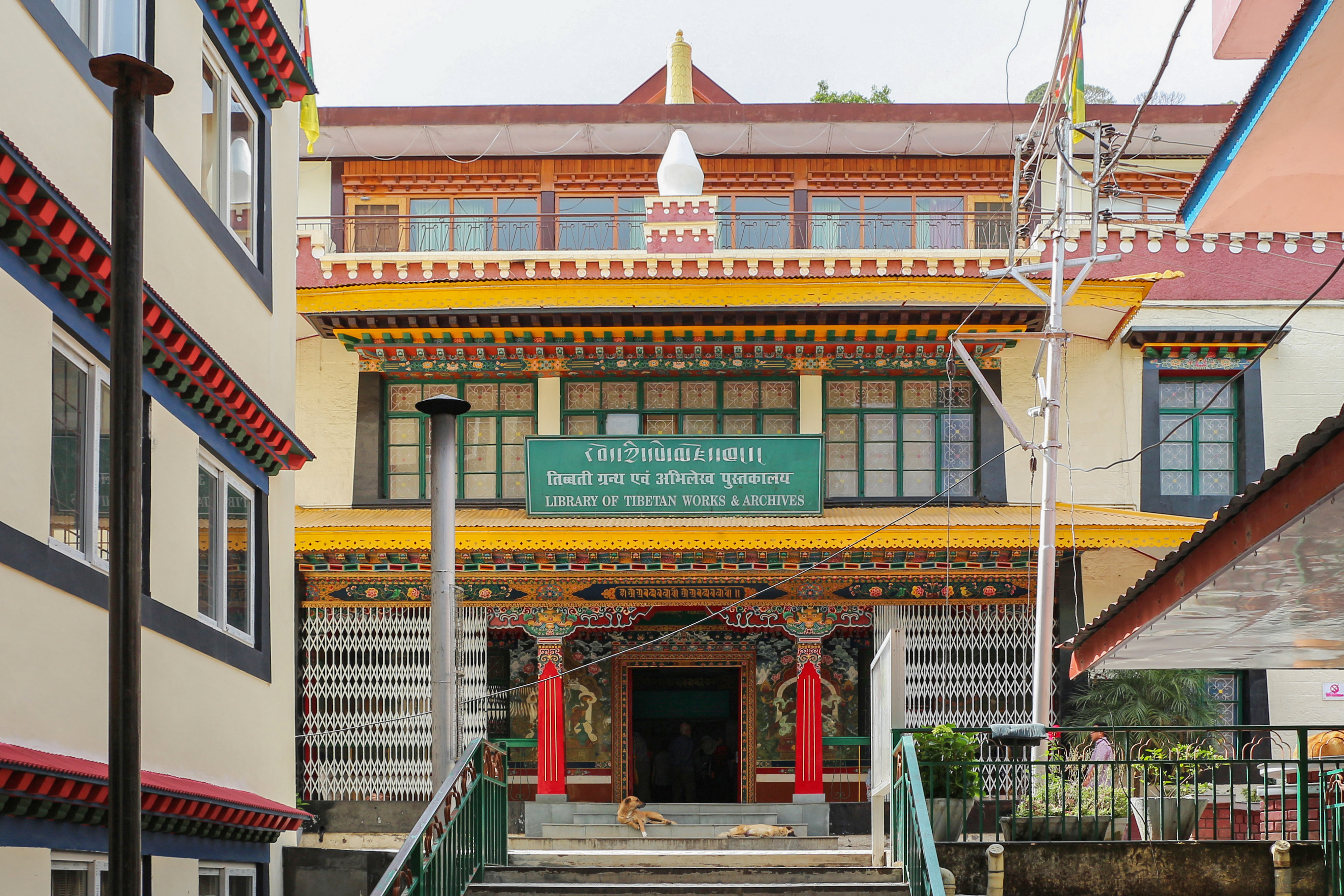 Library of Tibetan Works and Archives, Dharamsala, India